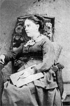 Thérèse Yelverton, Viscountess Avonmore (1832-1881).Travel writer. seated in manzanita armchair made by James Hutchings.